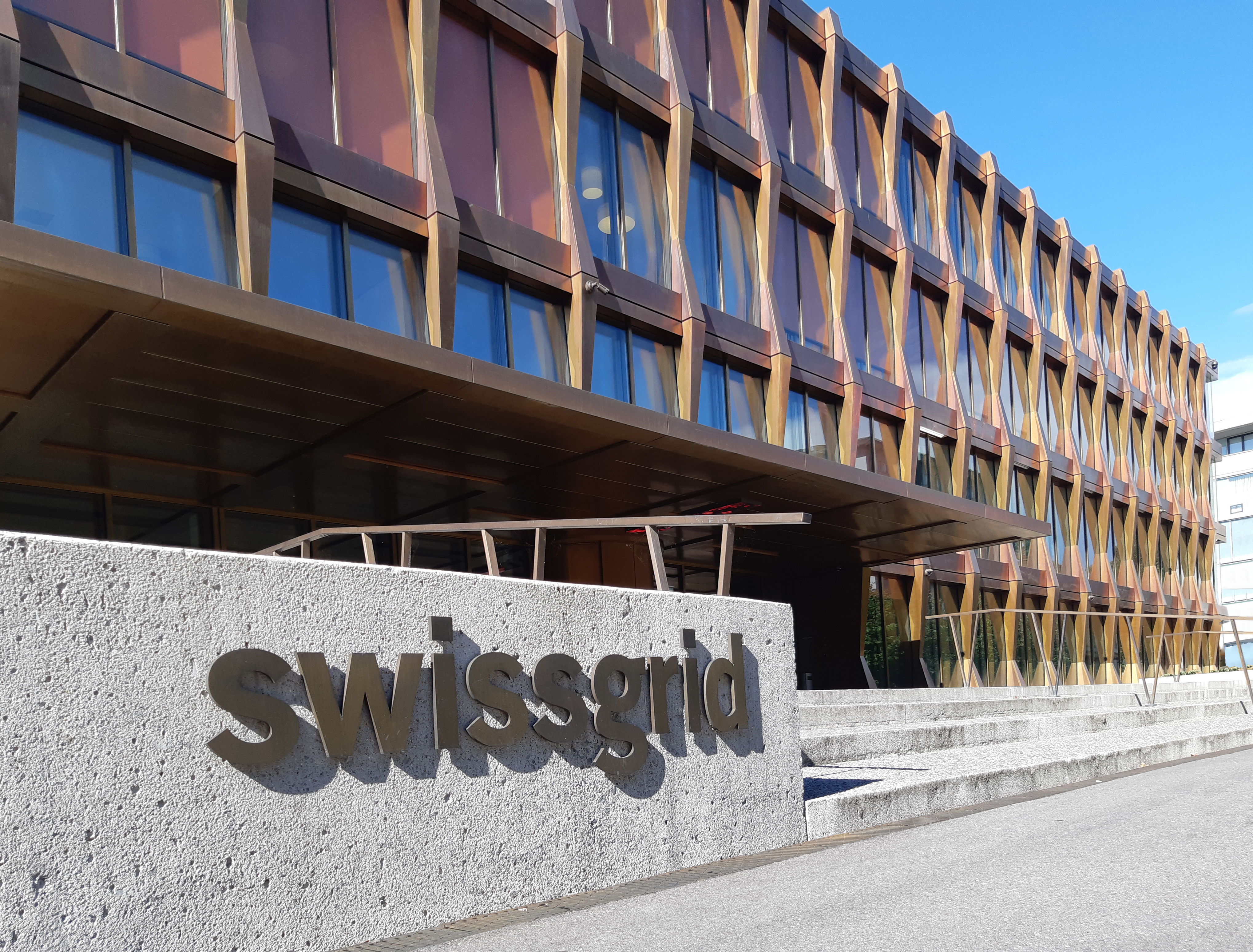 Administration building Swissgrid, Aarau (Switzerland)